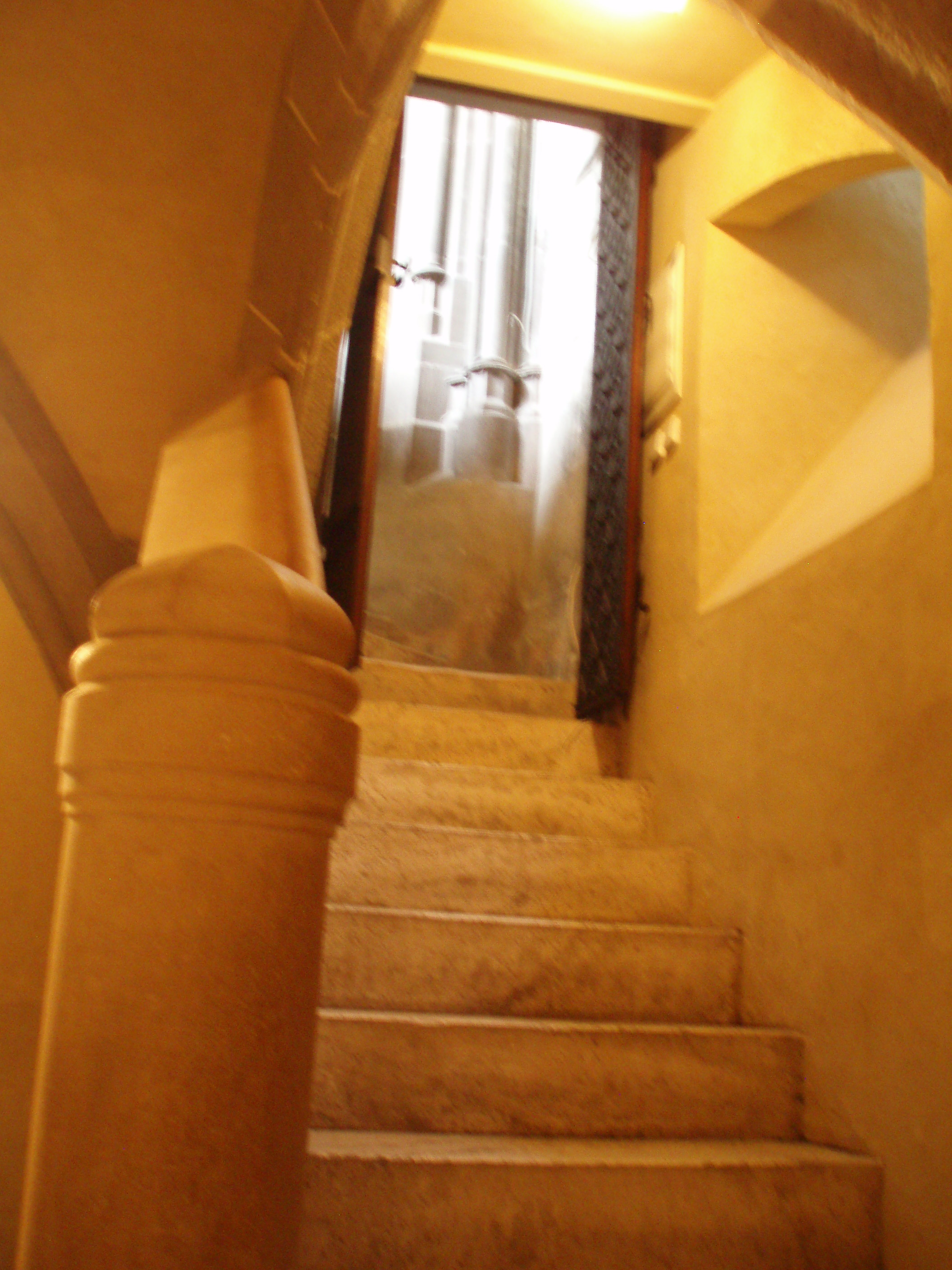 Entry to the Rákóczy krypt, St.Elisabeth, Košice